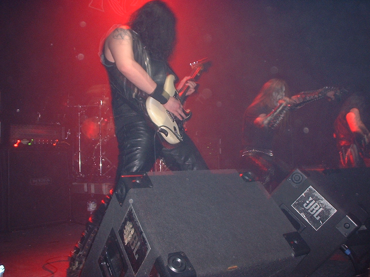 Marduk, playing live at Dublin in 2001.